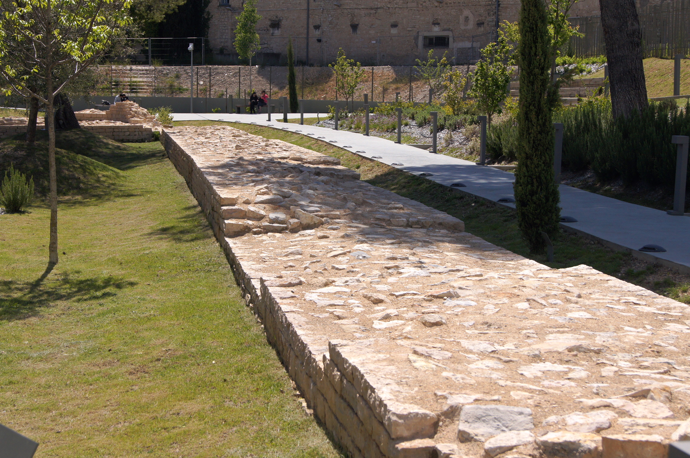 Nimes, Roman wall foundations